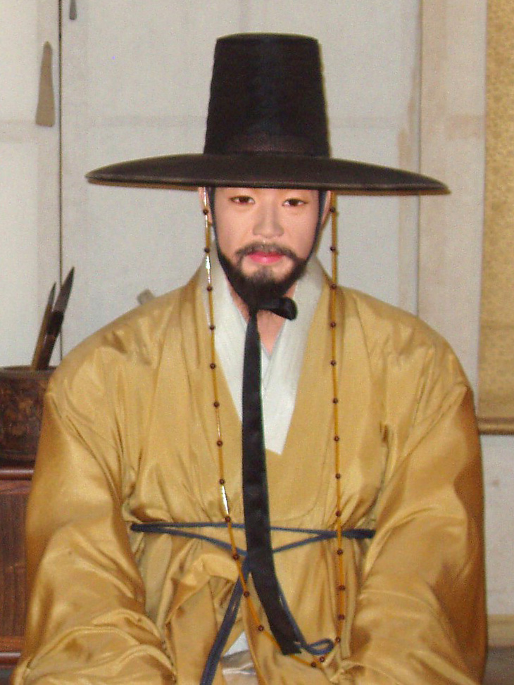 This is a cropped version of the original taken by user:Daderot